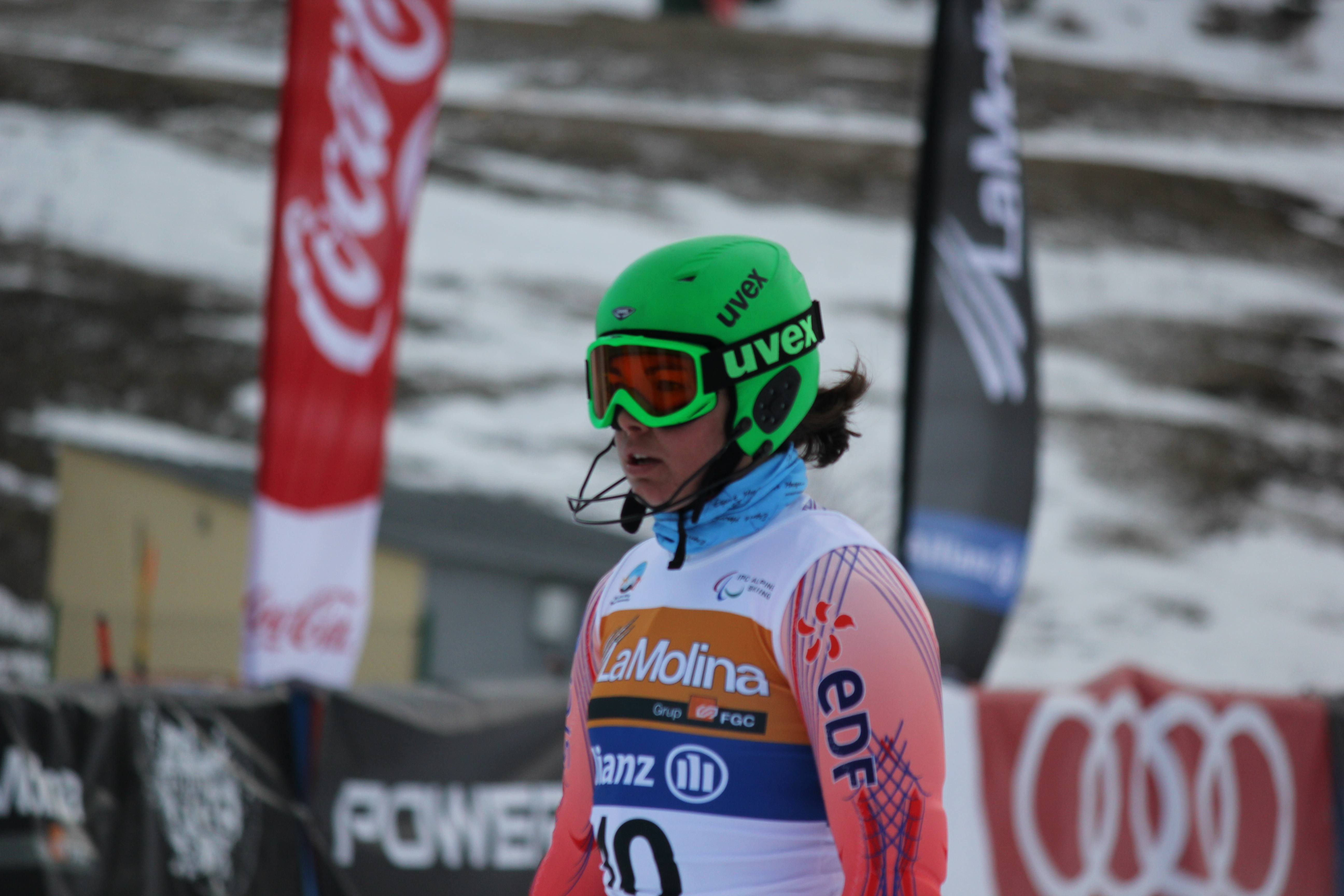 Solene Jambaque of France. 2013 IPC Alpine World Championships at La Molina in Spain. Day 3 of competition. Slalom final.